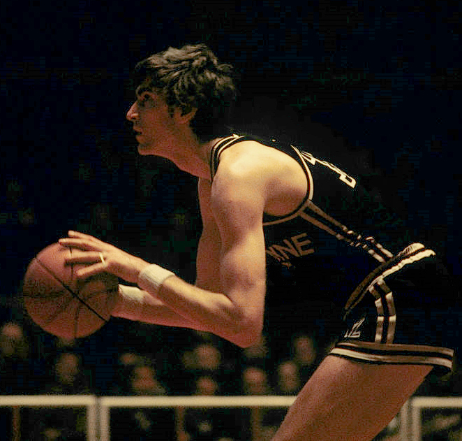 The American basketball player Charles Thomas (called Tom) McMillen is going to shoot scoring for his team, the Virtus. Italy, 1975